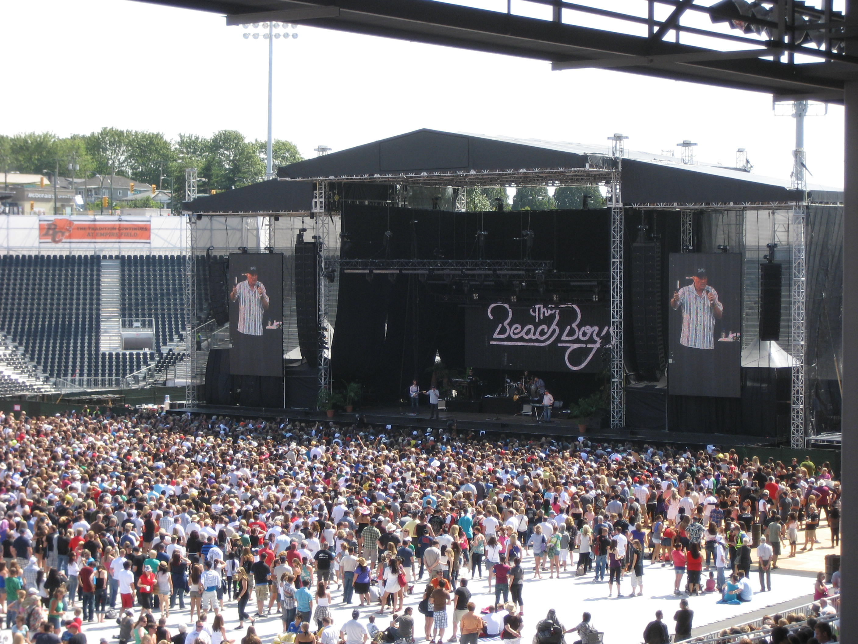 The Beach Boys in August, 2010